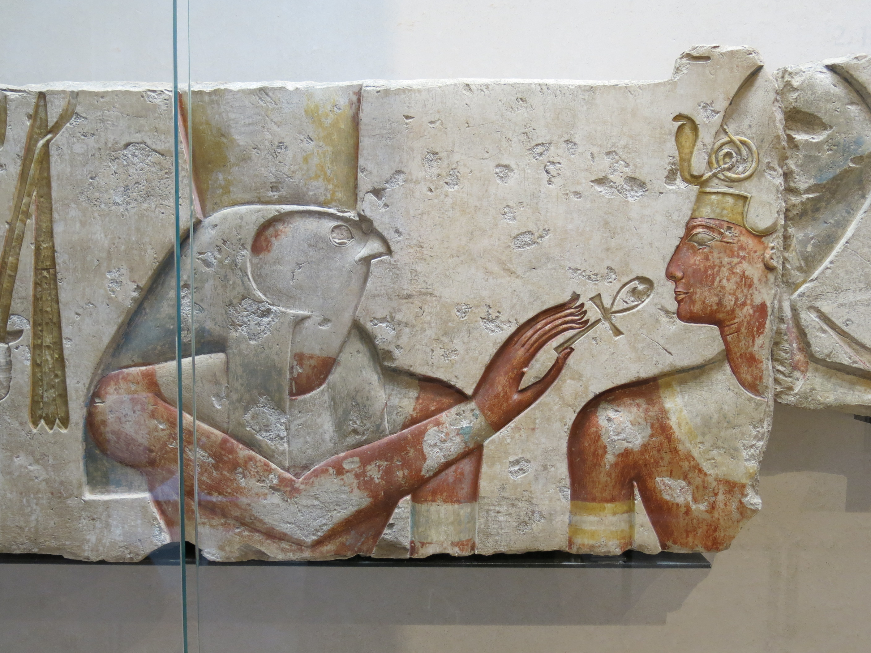 The King Ramsès II among the gods. Painted limestone. Circa 1275 BC. 19th dynasty. From the small temple built by Ramses II in Abydos. (Louvre museum, Paris, France).